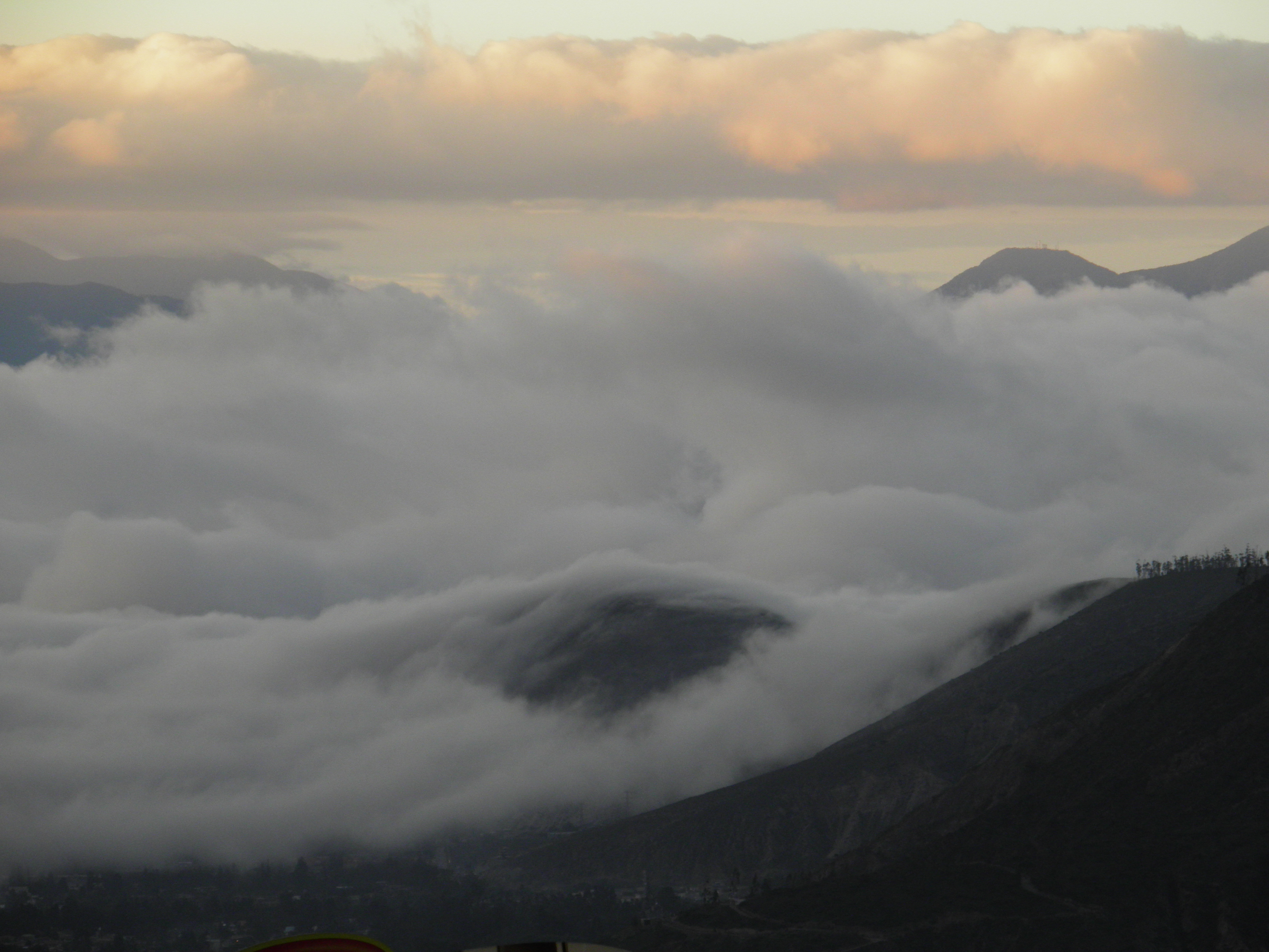 Low clouds over the valley of Pomasqui to the north of Quito, Ecuador, very close to the equator.